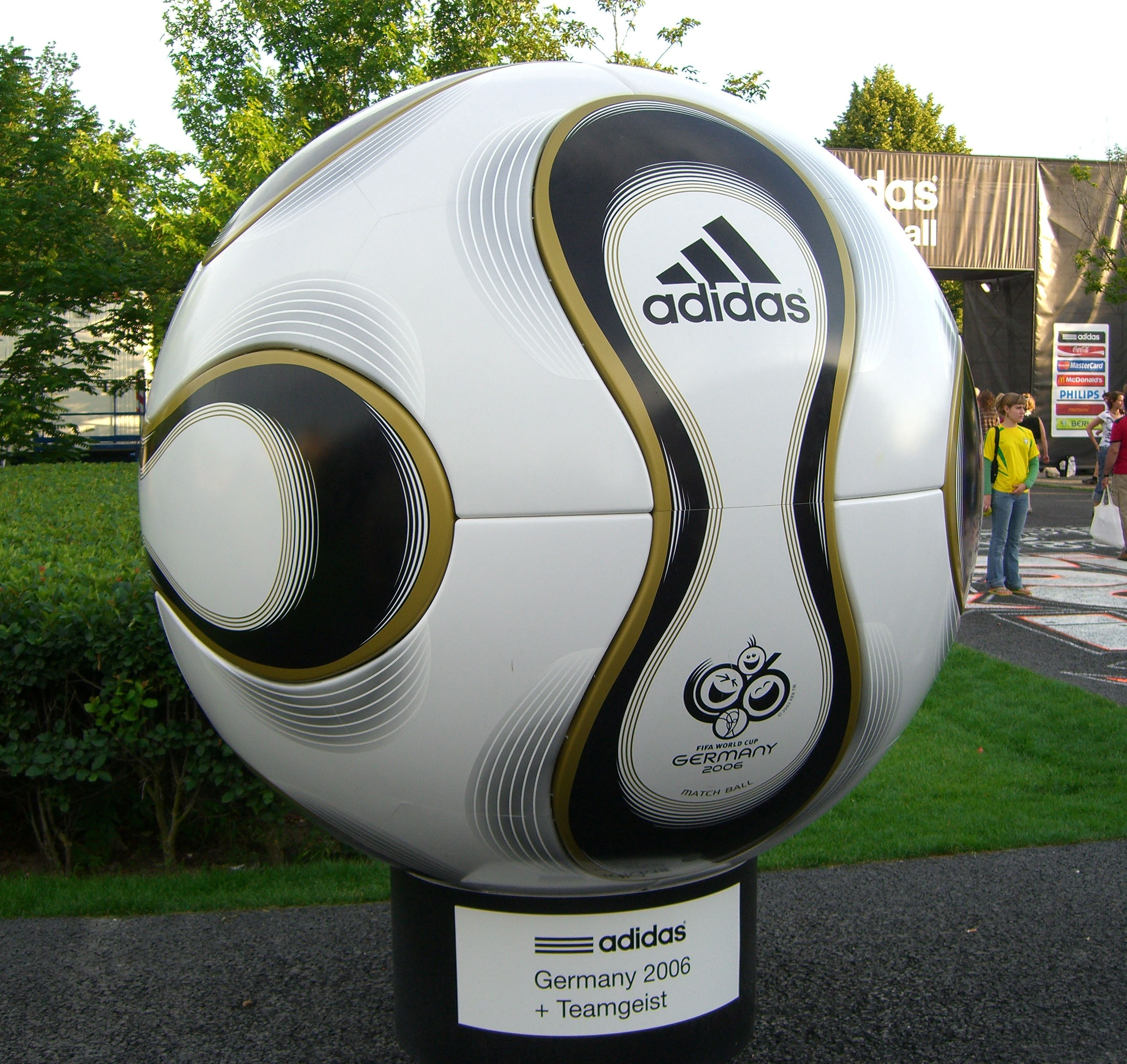 Adidas WorldCup Football 'Teamgeist' (oversized version)